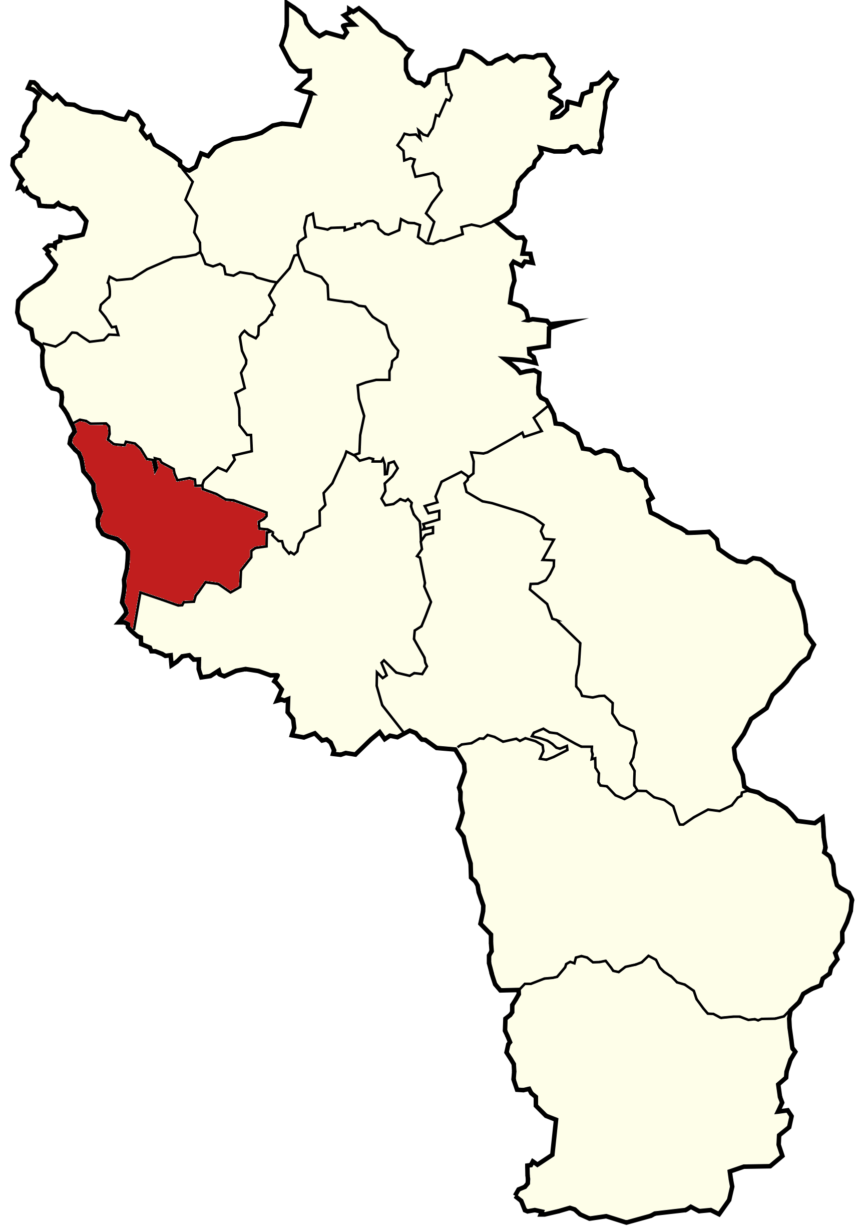 Cieszyn on Cieszyn county map